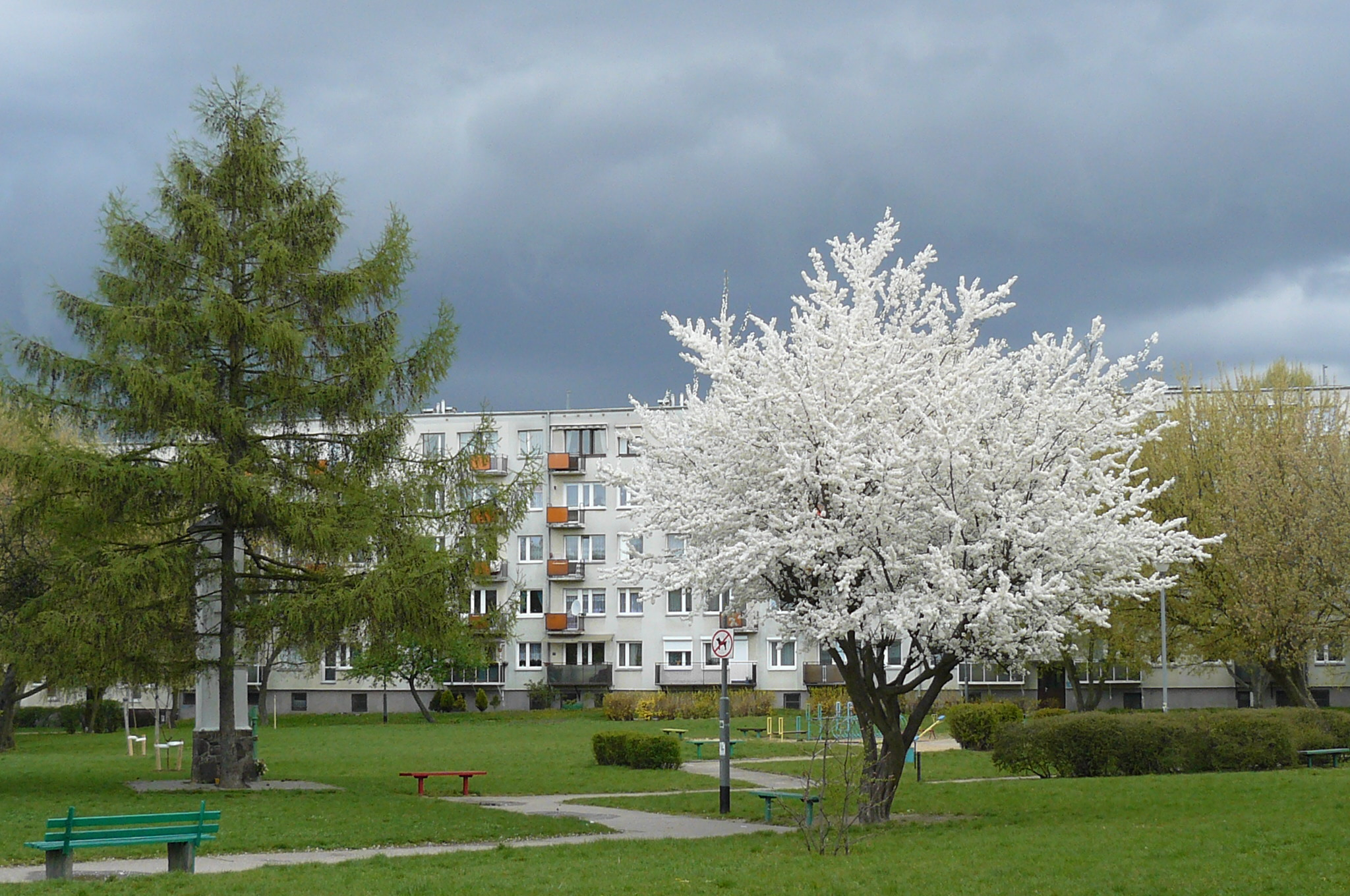 Spring in Winiary District (Poznan).